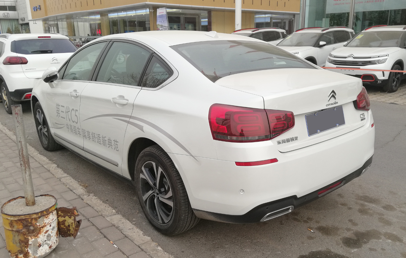 Citroën C5 II CN facelift II photographed in Beijing, China.